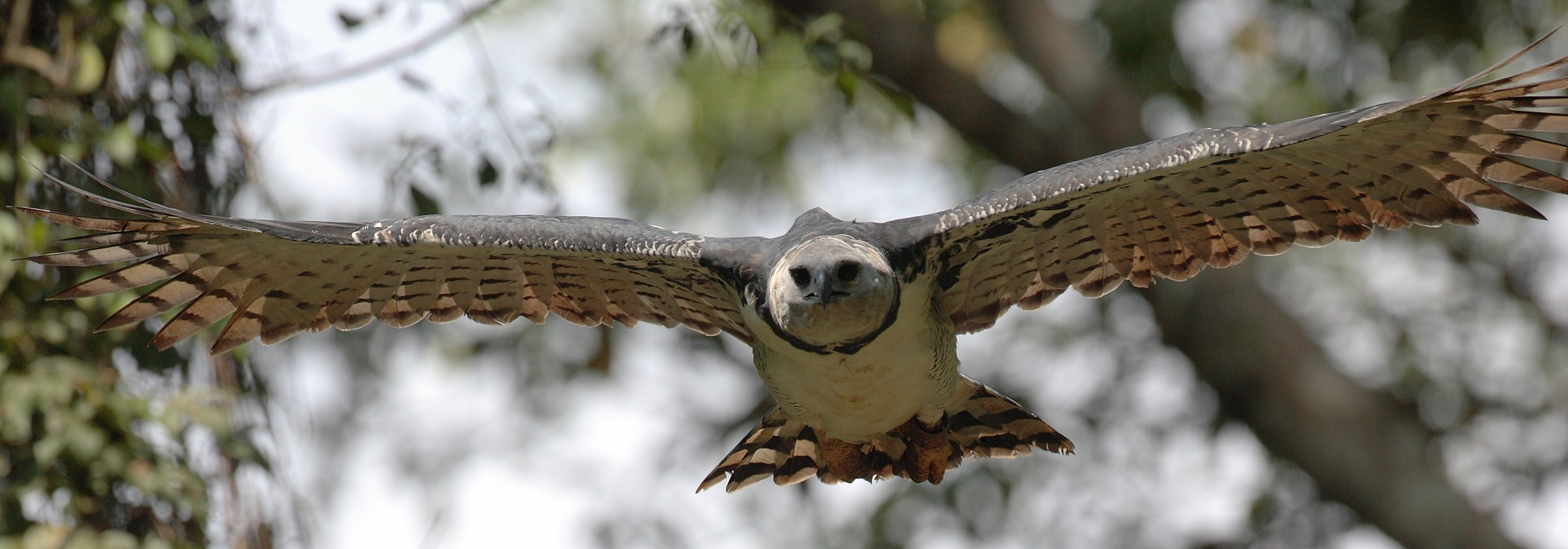 Harpy Eagle -- Camino del Oleoducto, Parque Nacional Soberania, Panama